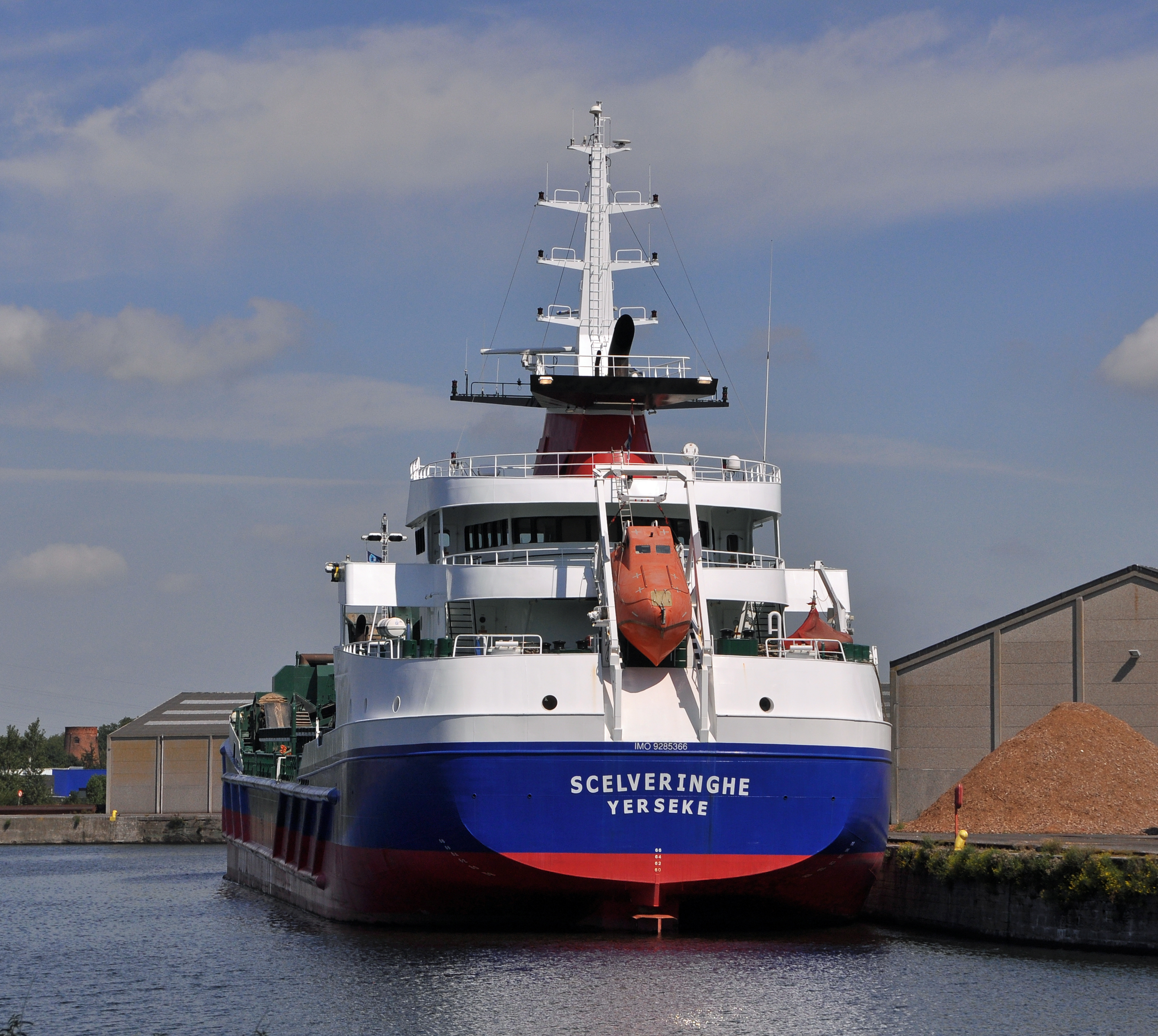 The Dutch suction hopper dredger Scelveringhe (rear side) in the port of Bruges (Belgium)